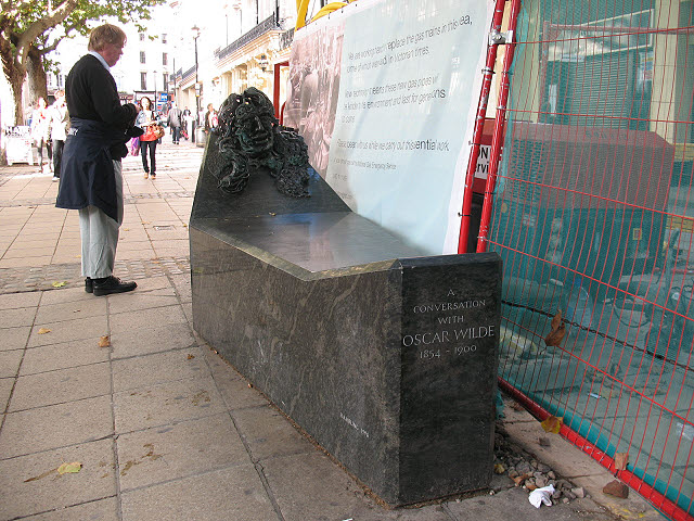 A conversation with Oscar Wilde That is the title of this artwork on the pedestrianised section of Adelaide Street, opposite Charing Cross station. Where his feet should be is a quotation (one of his many memorable lines): "We are all in the gutter, but some of us are looking at the stars".